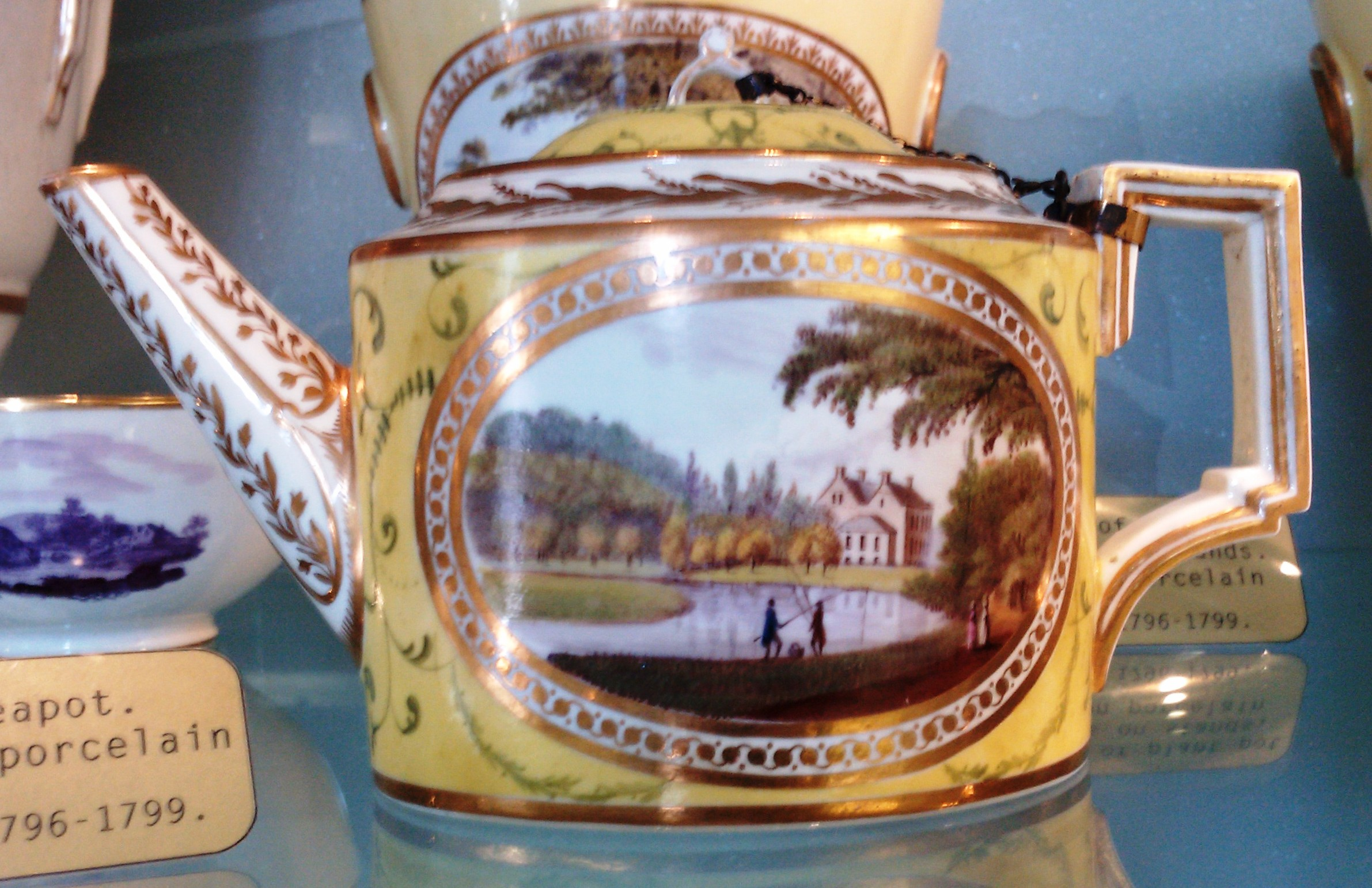 Teapot of Porcelain made in Derbyshire and now in the collection of Derby Museum and Art Gallery